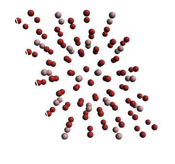 This monoclinic crystal structure has a unit cell volume of 524.16 cubic angstroms